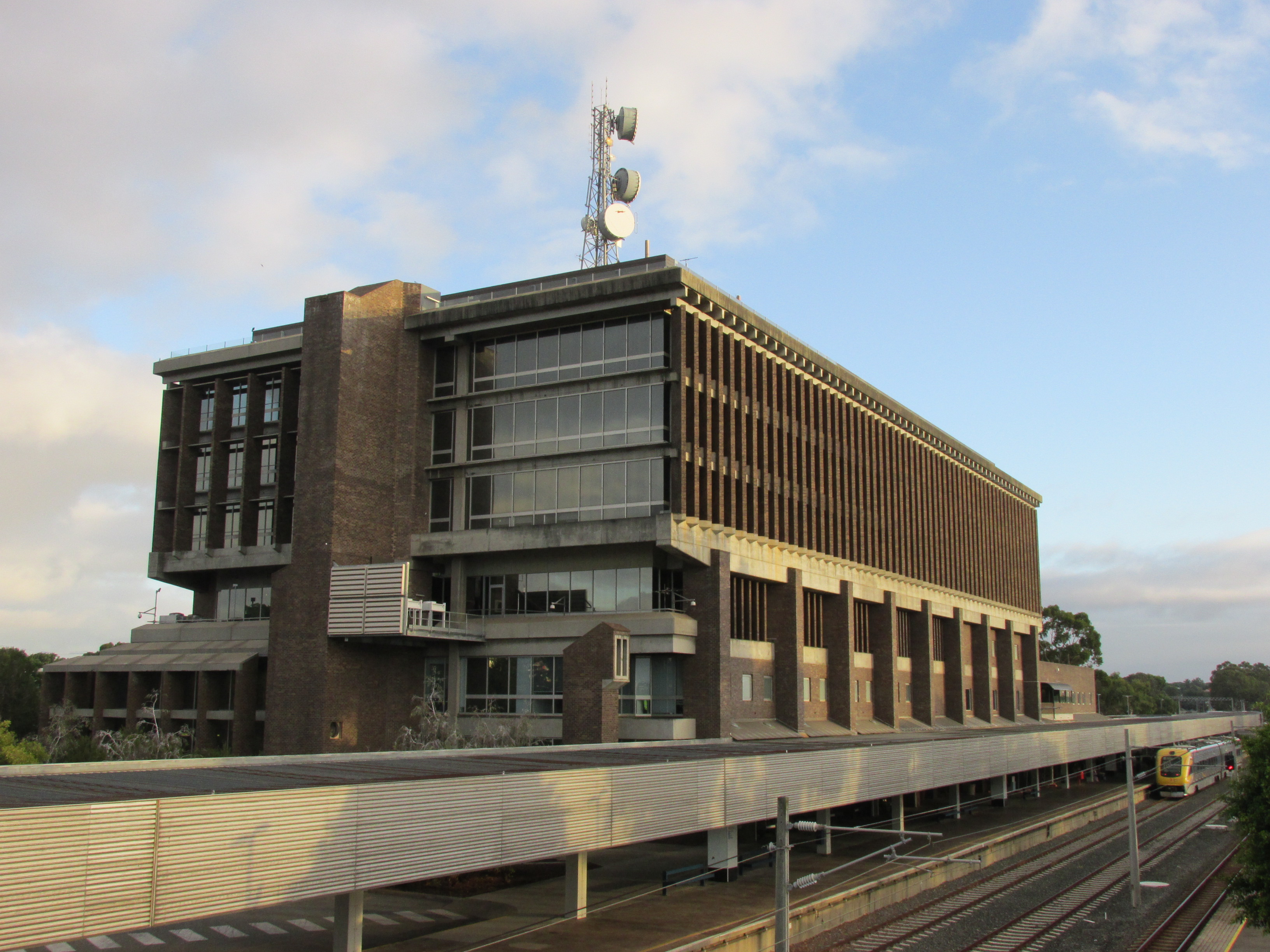 East Perth transport centre, Perth, Western Australia